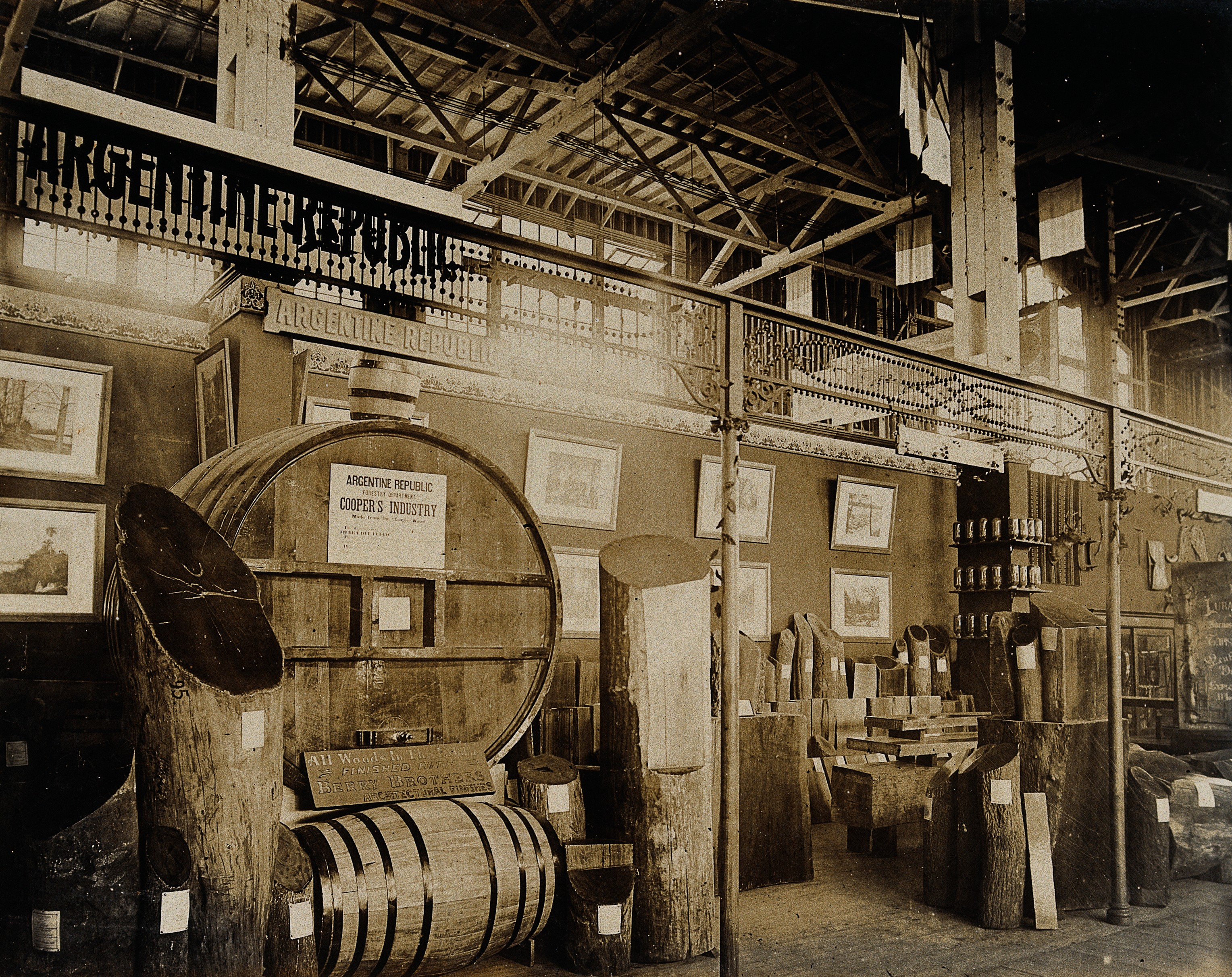 The 1904 World's Fair, St. Louis, Missouri: an Argentine Republic exhibit on forestry Iconographic Collections Keywords: Woodwork; America; Exhibition; Missouri